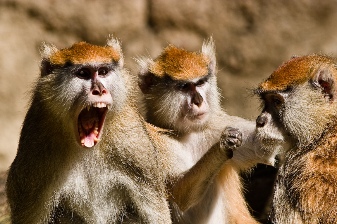 Patas Monkey (Erthrocebus patas)